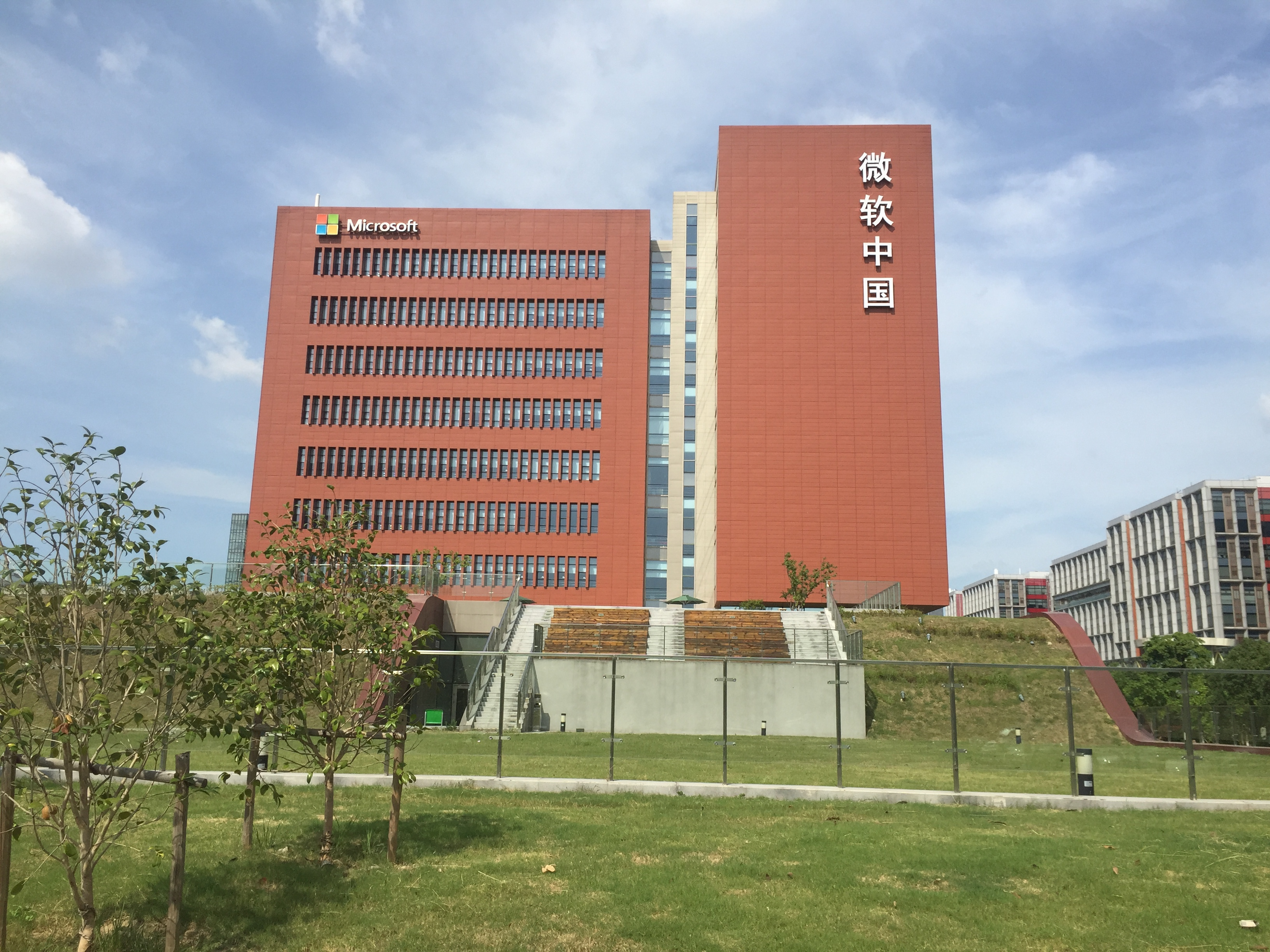 Microsoft Suzhou New Building